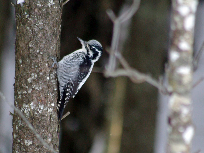 Picoides tridactylus ( Three-toed Woodpecker, Tripirštis genys) This one was very friendly and coming to me without looking. But a little skittish to allow me walk closer. Female. Biržai dst. Lithuania